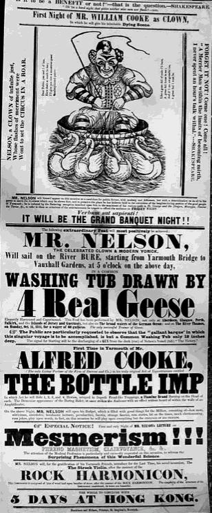 Advertisement for circus Yarmouth 1845